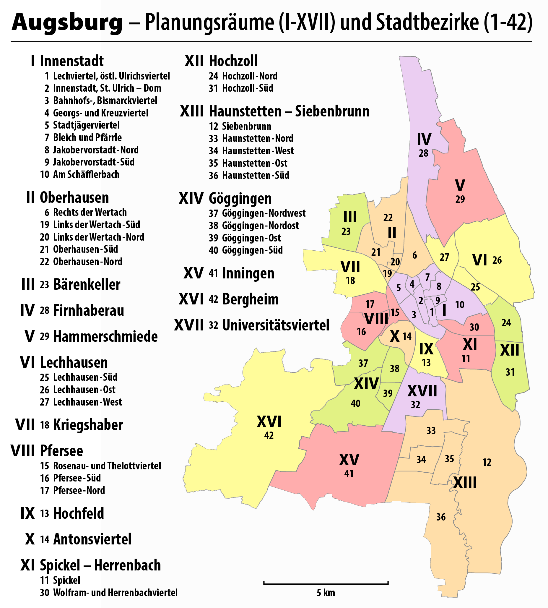 Augsburg: planning units and boroughs